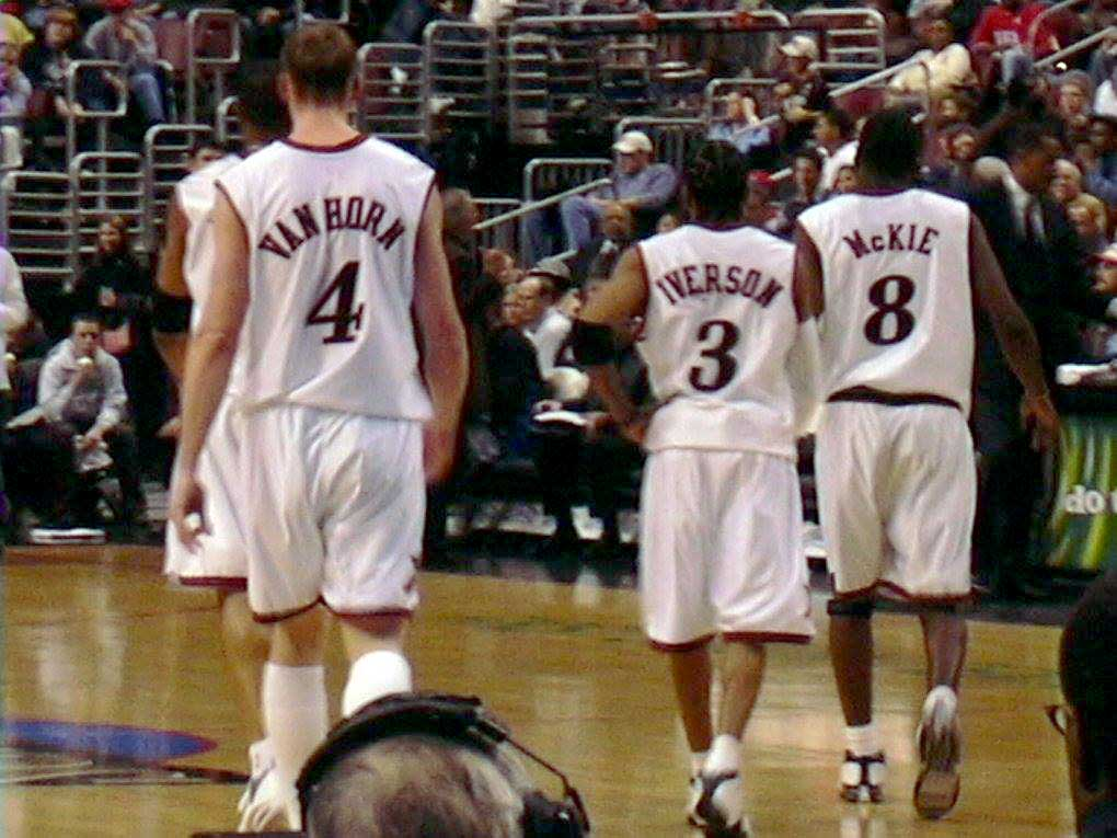 Keith Van Horn, Aaron McKie and Allen Iverson, Philadelphia 76ers